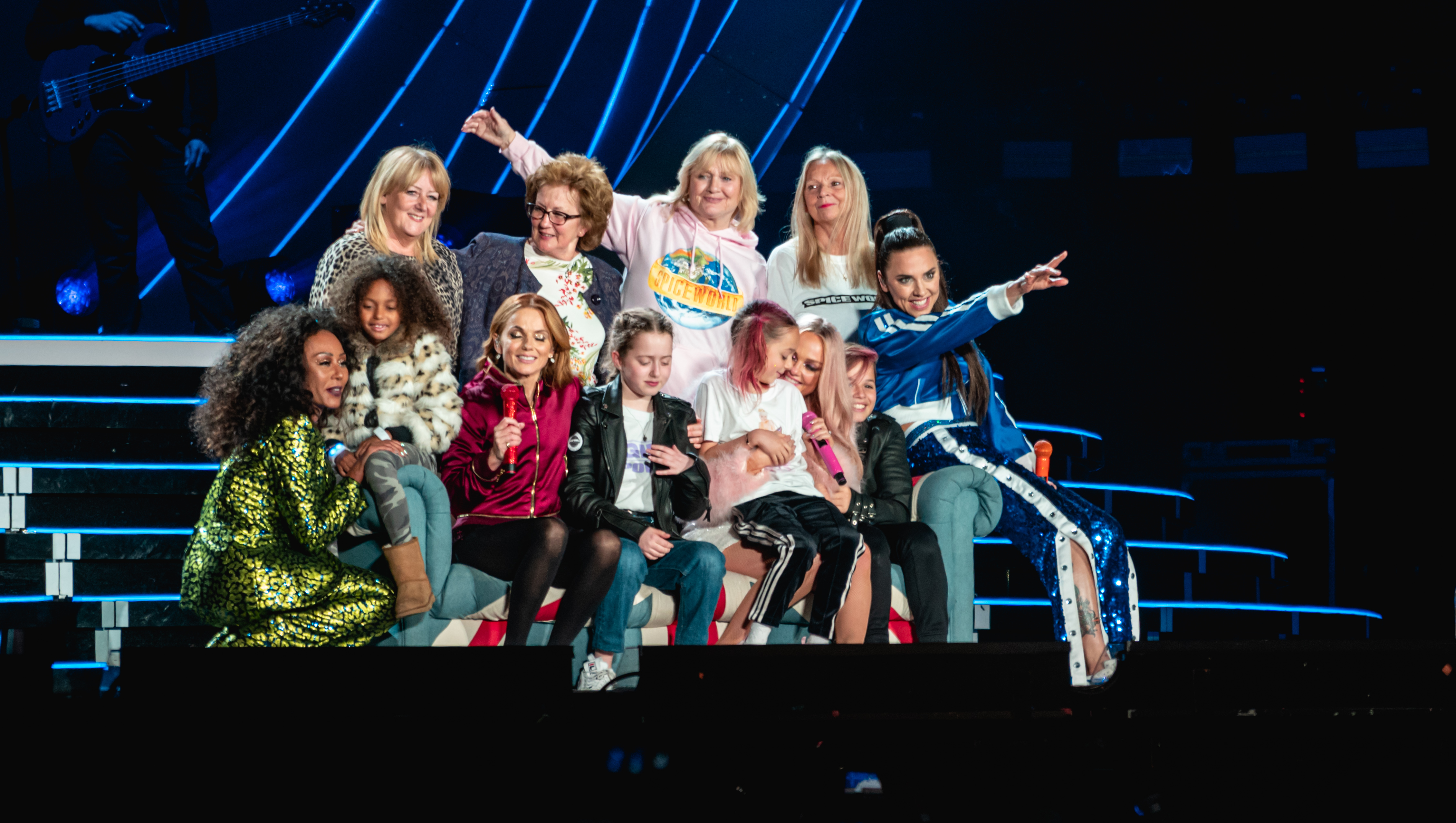 SpiceGirlWembley150619-105